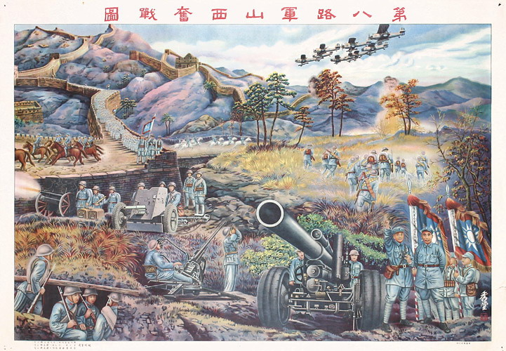 Eight Route Army in Shanxi